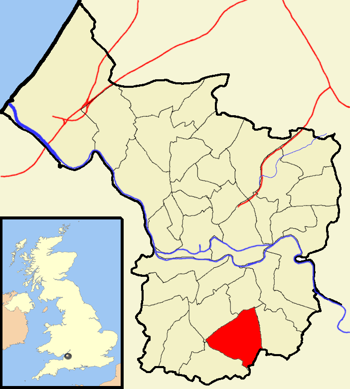 Map showing Hengrove within Bristol.